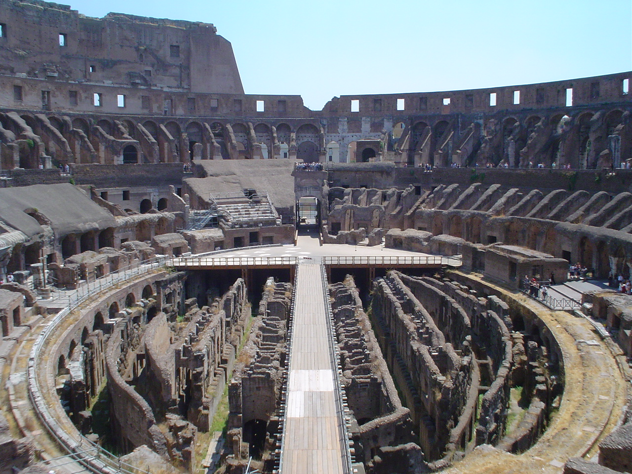 The Colosseum in Rome, picture taken in the summer of 2003.